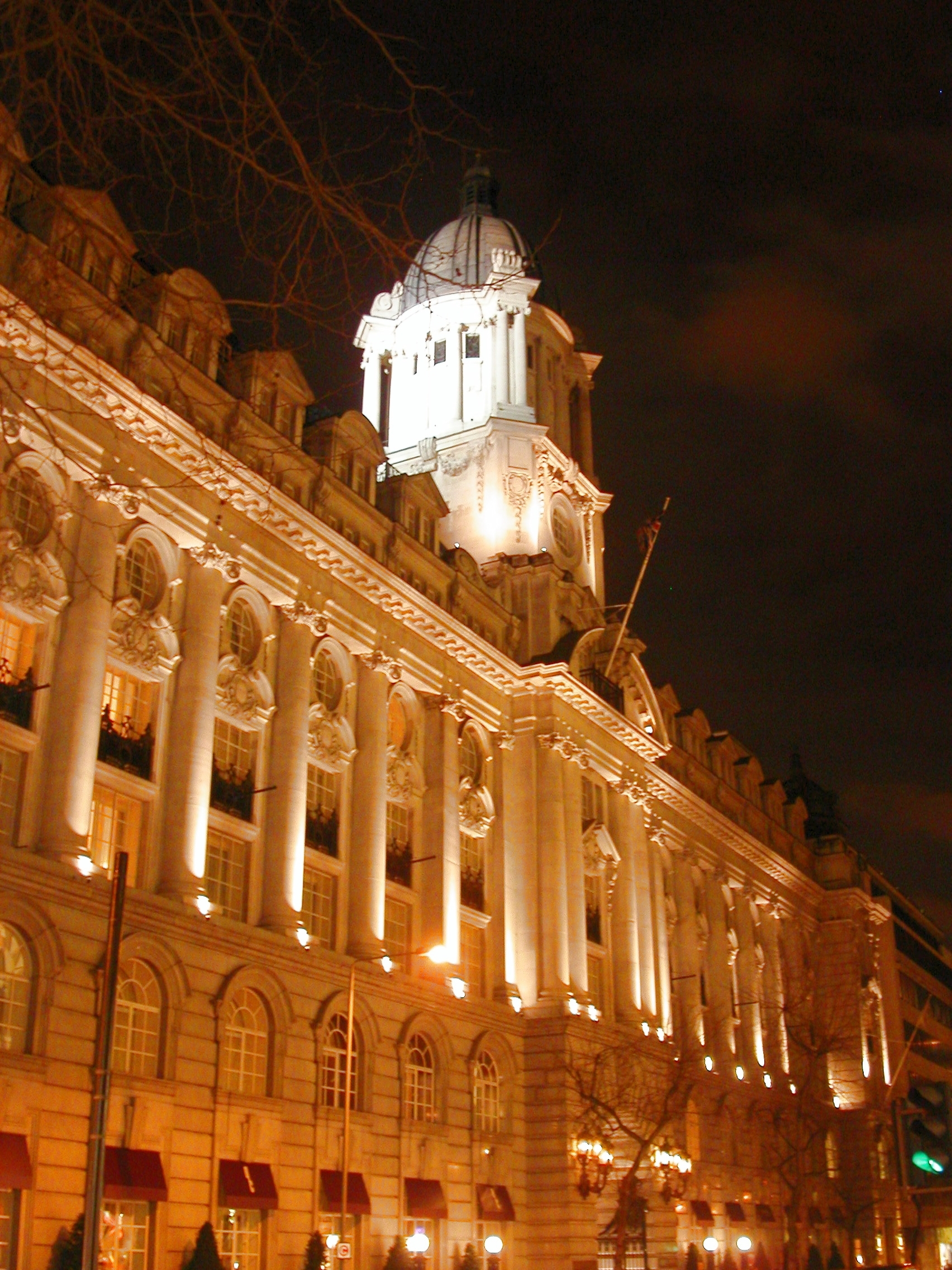 The facade of the Renaissance London Chancery Court Hotel by night. The building is an old court place, therefore the name "Chancery Court". The London Chancery Court Hotel is one of Renaissance's noblest addresses worldwide; when re-functioned to a hotel, the building was fundamentally renovated - including an impressive staircase restored to its original splendour.